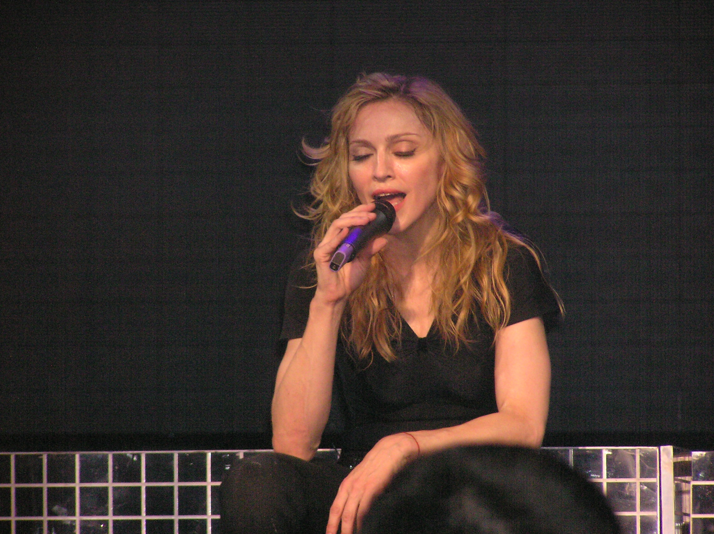 Madonna concert in Fresno